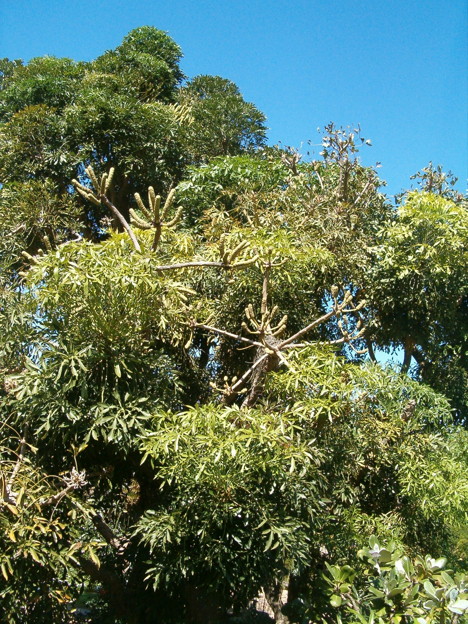 At Kirstenbosch National Botanical Gardens Species Cussonia spicata